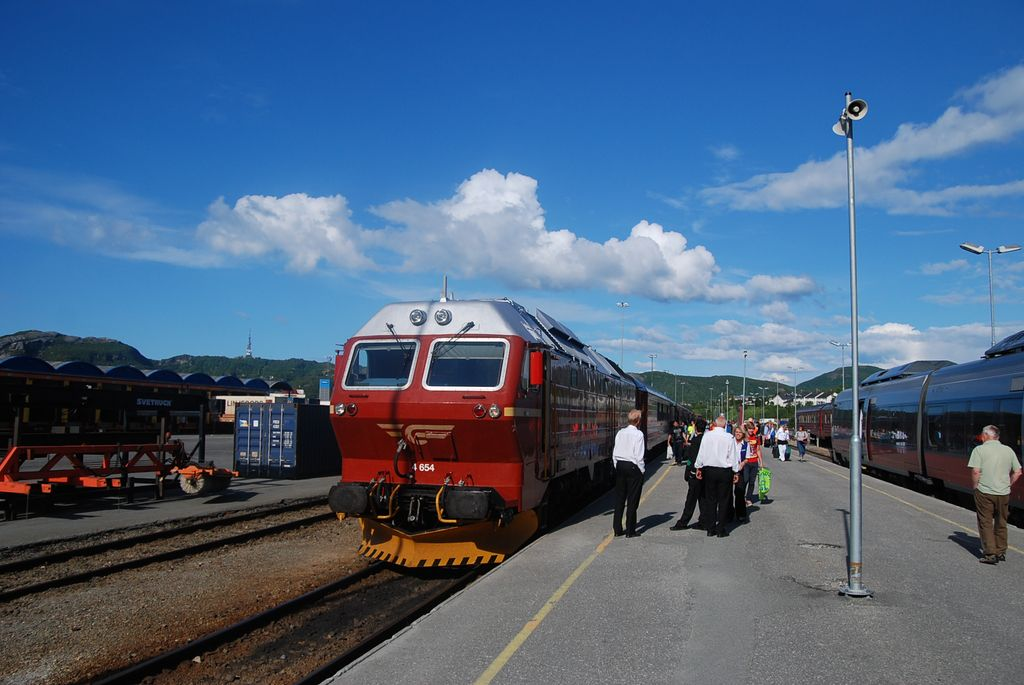 Di4 (left) and Class 93 (right) trains at Bodø Station, Norway